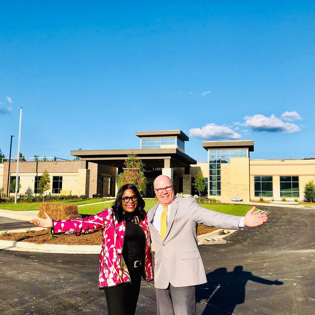 Me, with Mayor Day of Thomasville, in front of the new hospital! It’s 90% done. Can’t wait to cut the ribbon for the grand opening. What a way to end the day!